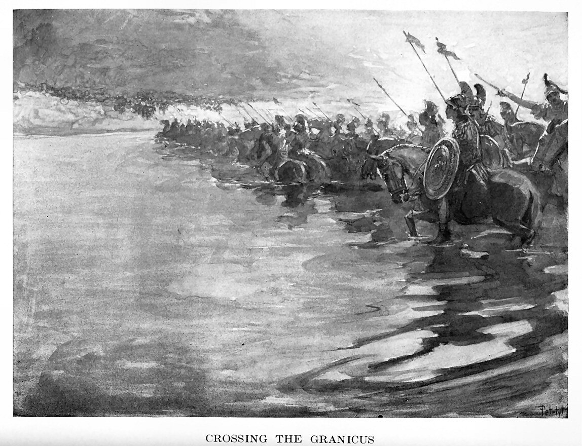 The cavalry charge across the river at the Battle of the Granicus